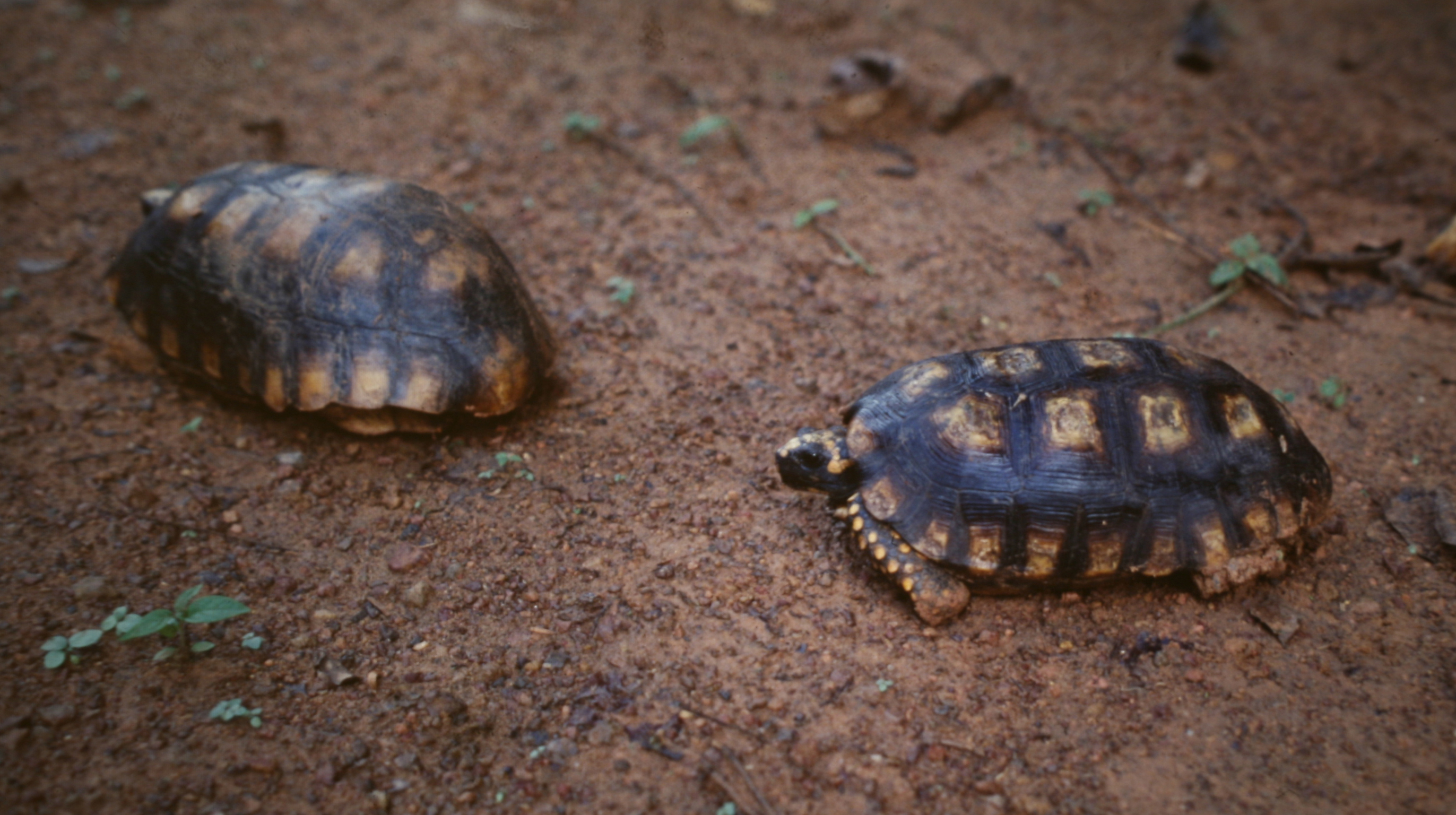 Two Chelonoidis denticulata. Photo: Zanderij-Apoera road, Suriname.